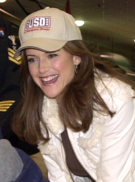 Kelly Preston; Norfolk, Va. (Dec. 3, 2005) - Actress Kelly Preston talks with Navy family members at the United Service Organization (USO) holiday party at Rockwell Hall Gym on board Naval Amphibious Base Little Creek, Va. The USO's annual holiday party gives service members and their families from throughout the mid-Atlantic region a chance to celebrate the holidays together. The party originally started in a partnership with Cox Communications as a way for families of deployed service members to record and send messages to their loved ones. U.S. Navy photo by Journalist 3rd Class Davis J. Anderson